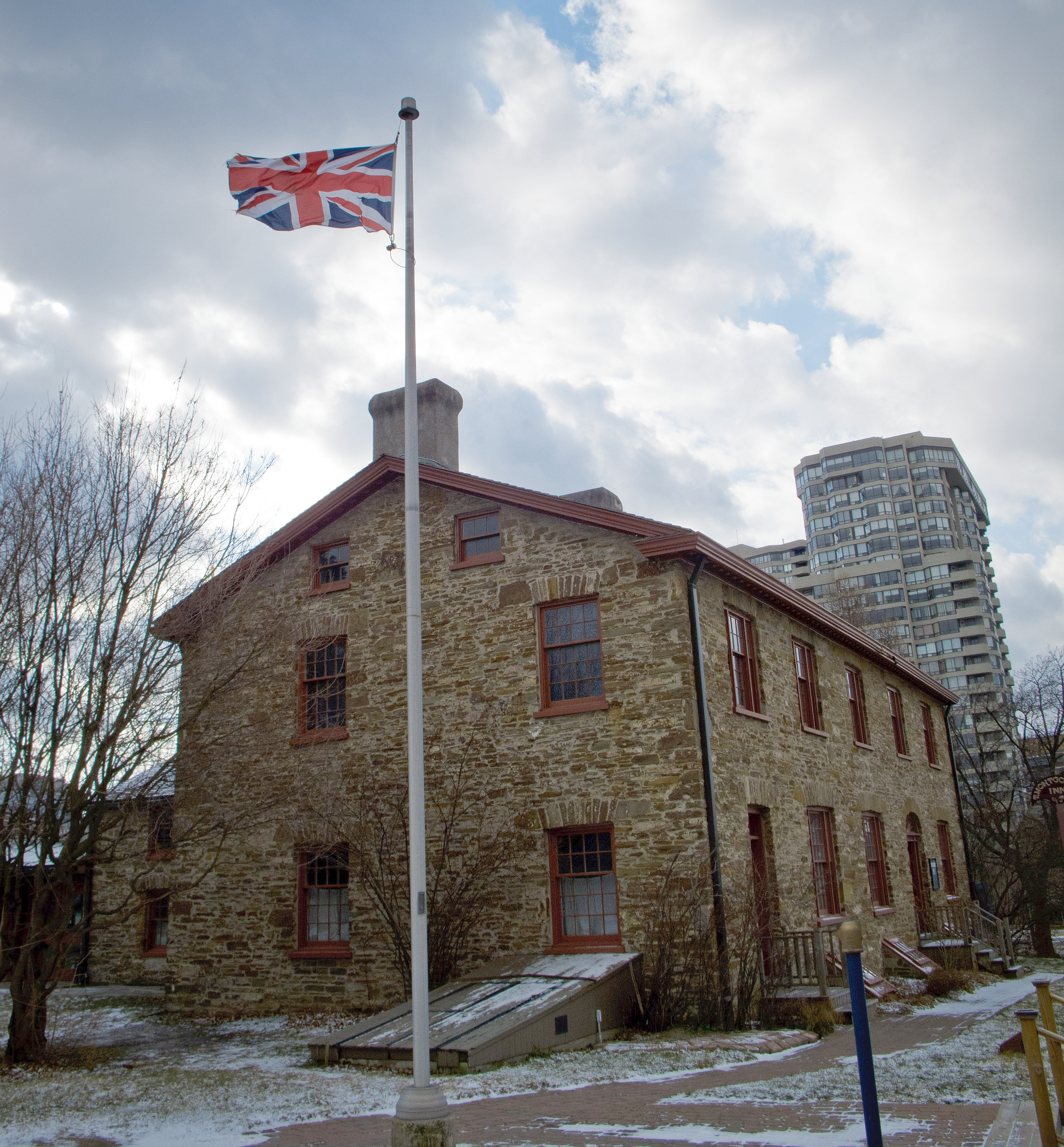 The Old Flag Still Flies Over Montgomery's Inn